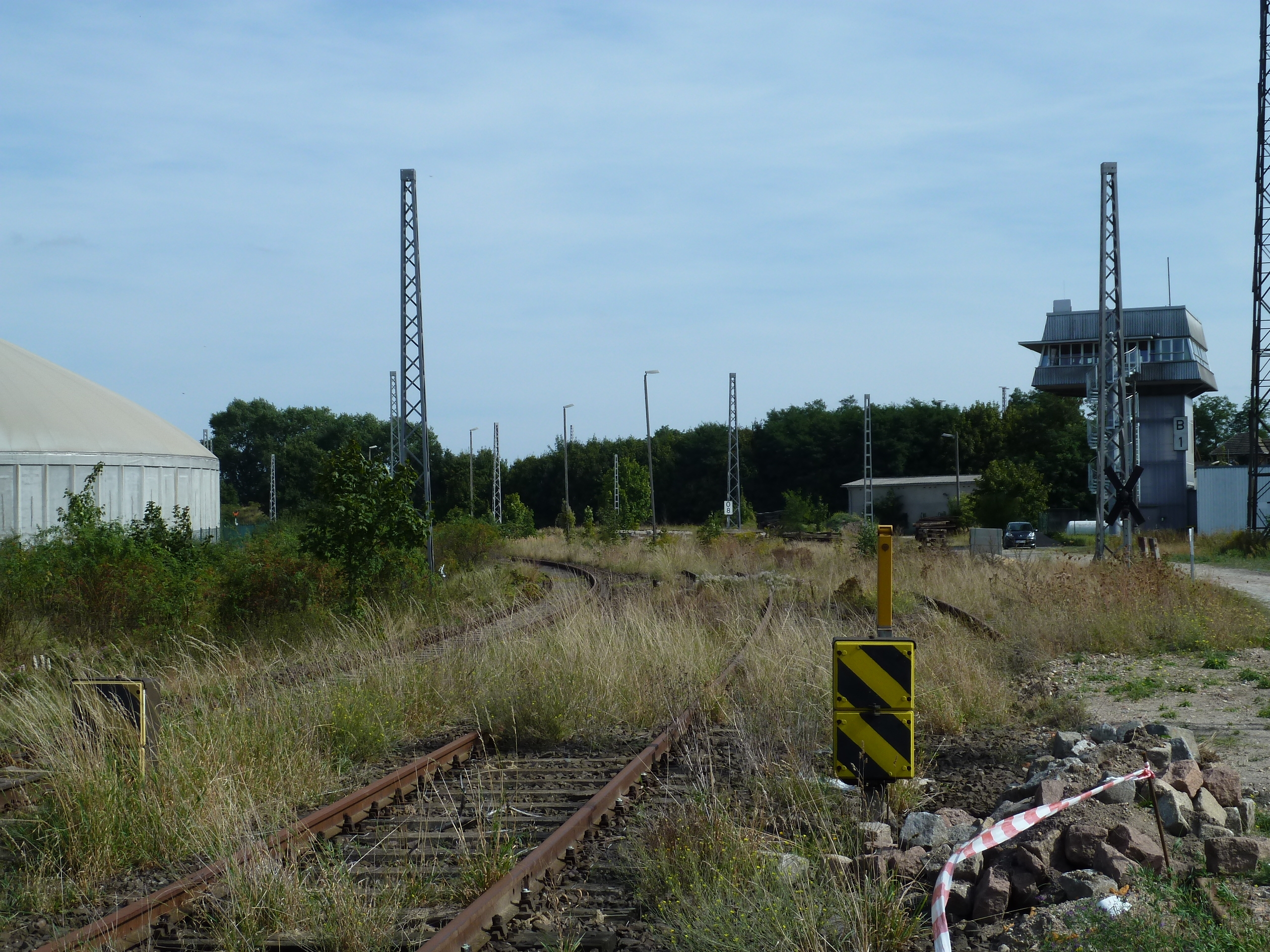 Güterglück train station,northern junction (Magdeburg.-Belzig)